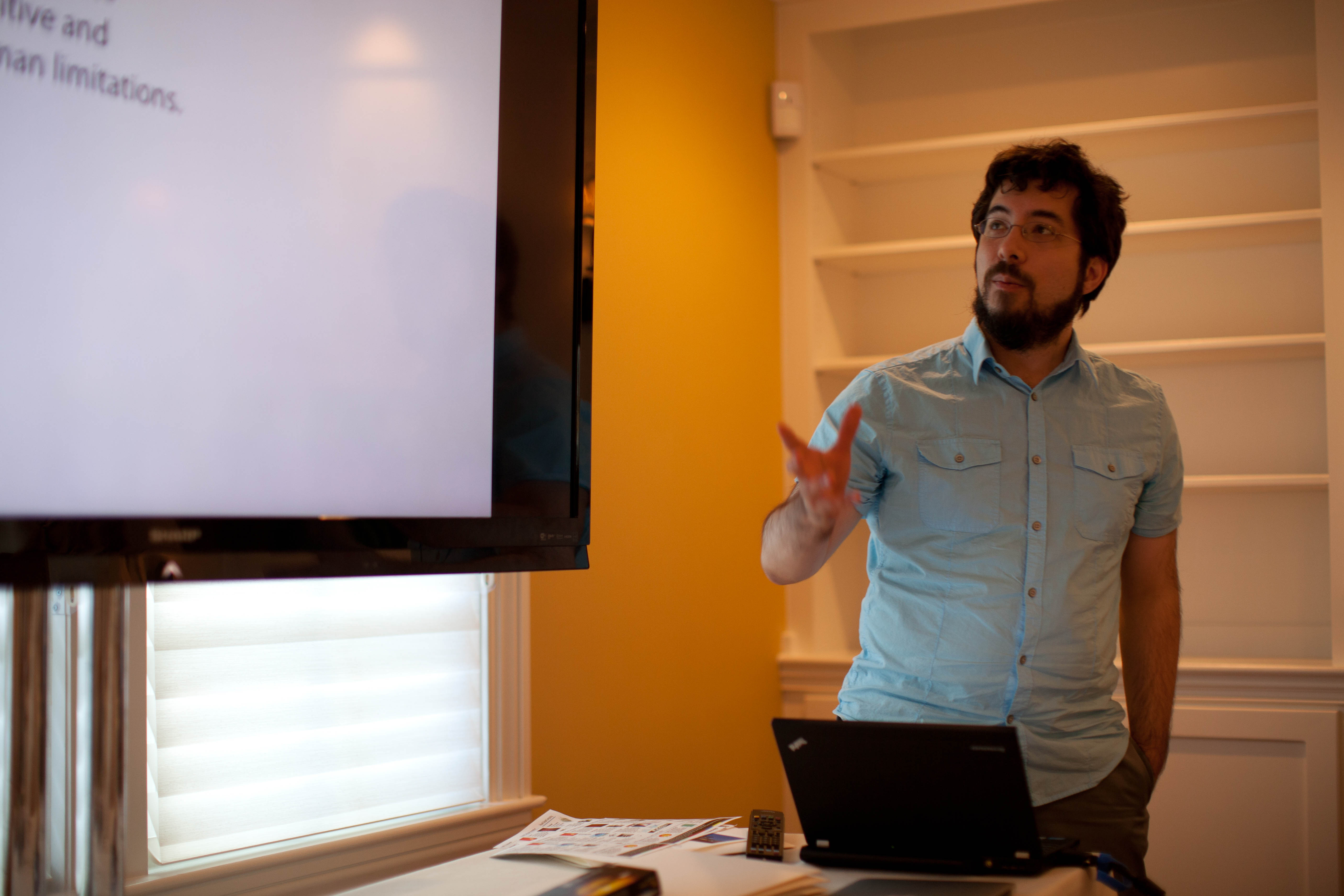 Ed Boyden